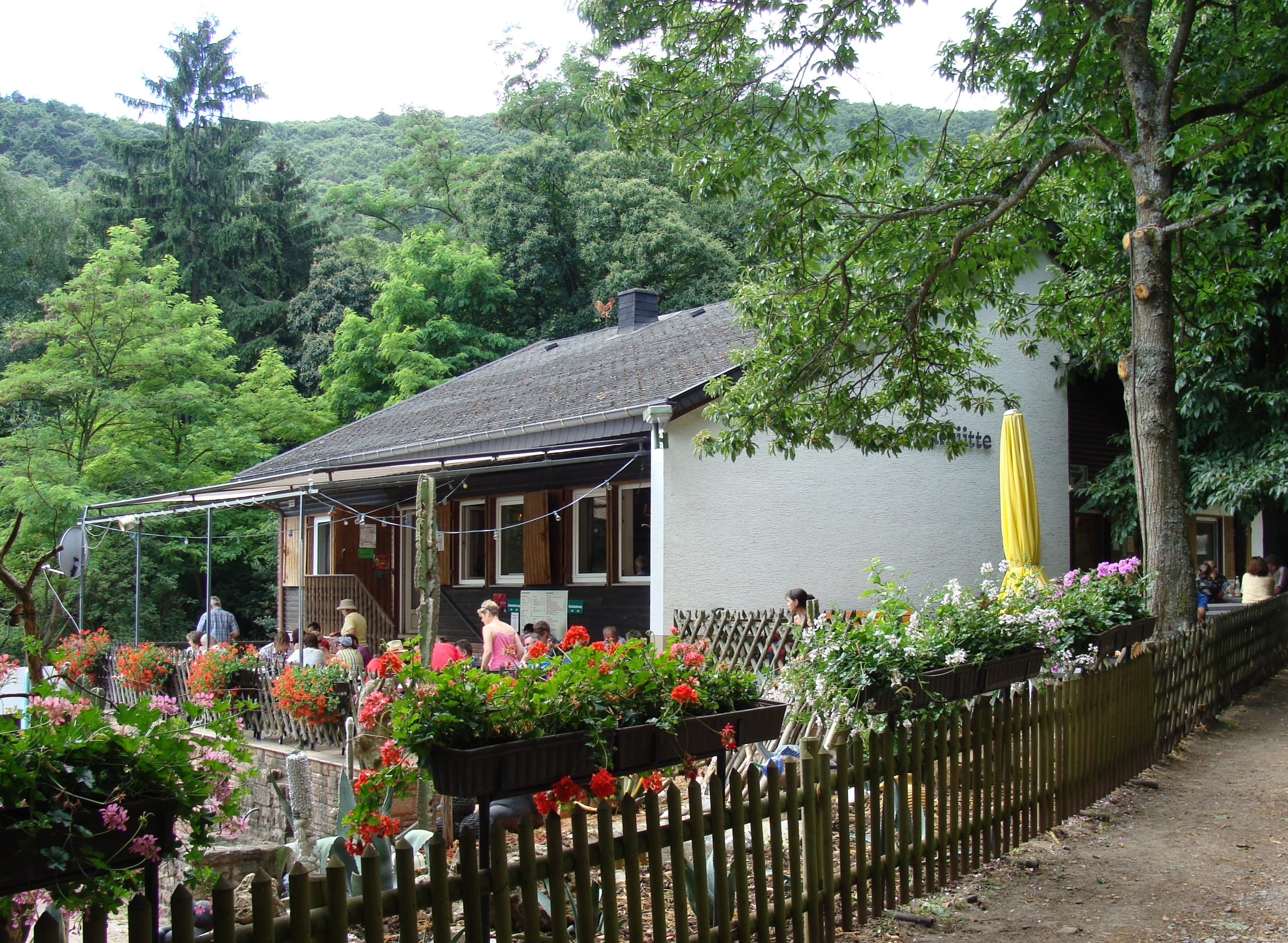 Klausental hut (Palatinate forest)